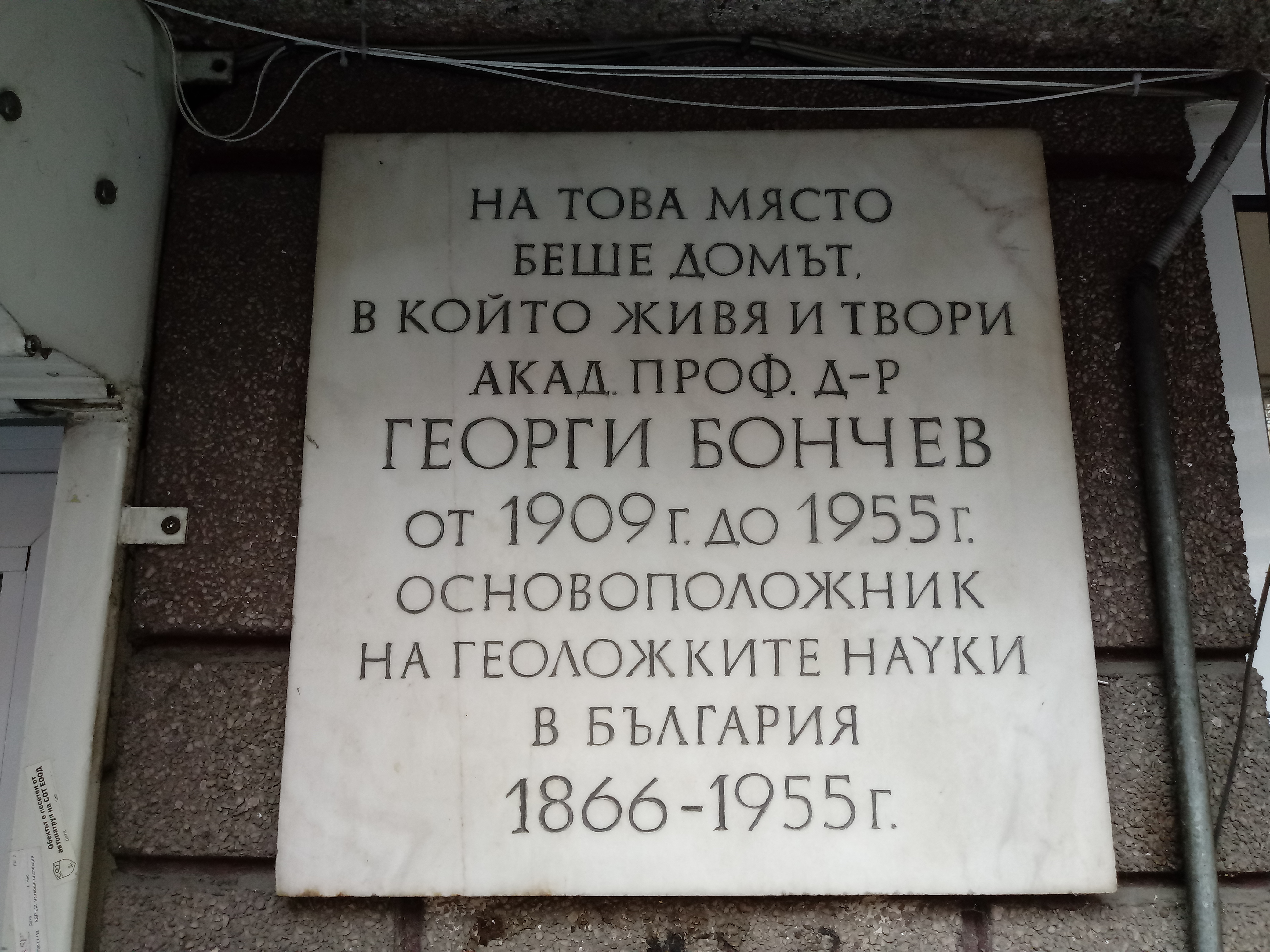 Georgi Bonchev memorial plaque, 2 "Asen Zlatarov" Str., Sofia